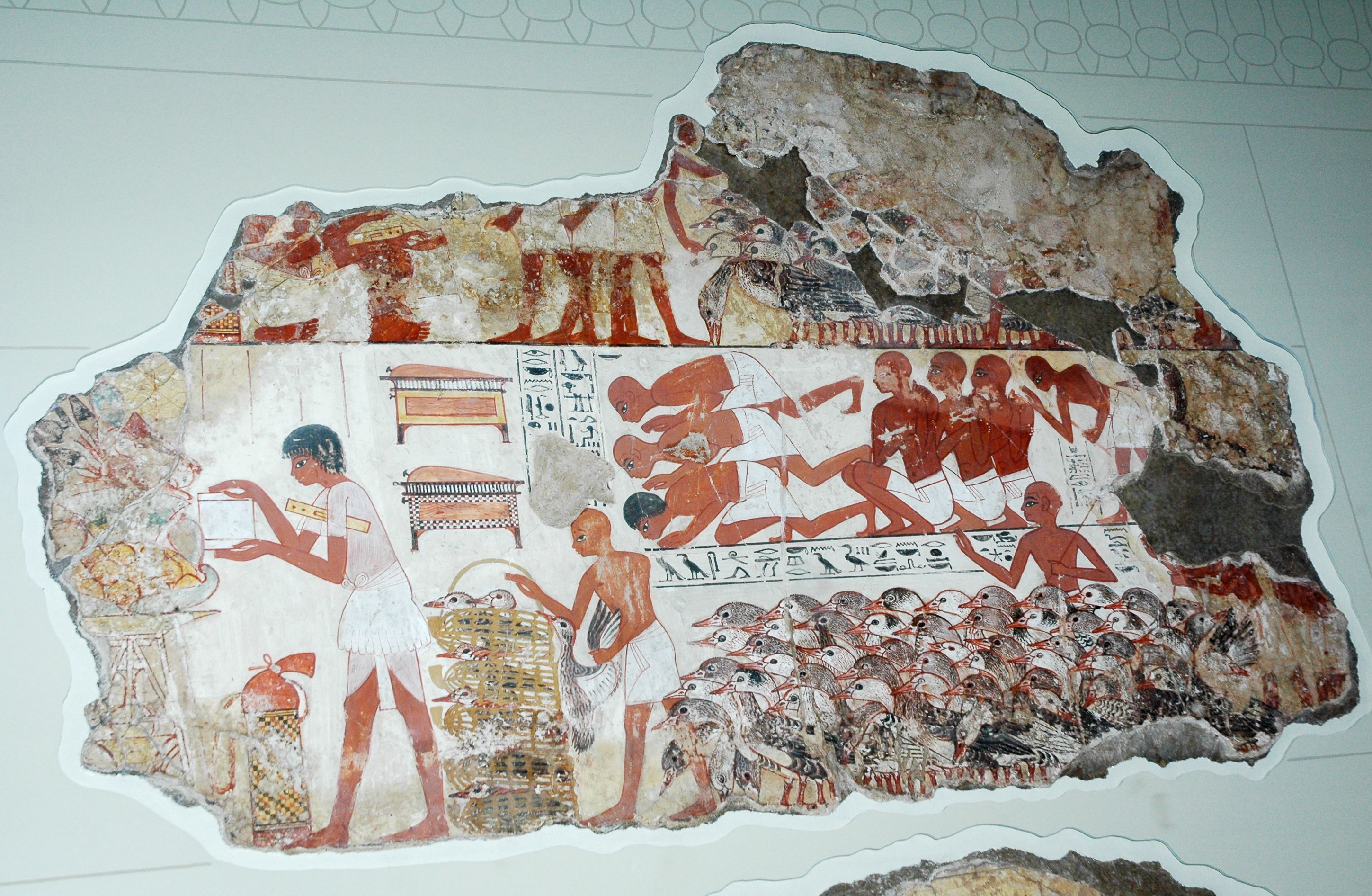 Scene from the lost tomb-chapel of Nebamun, exposed in the British Museum, scene showing the presentation of flocks and geese, Inv.: BM EA 37978